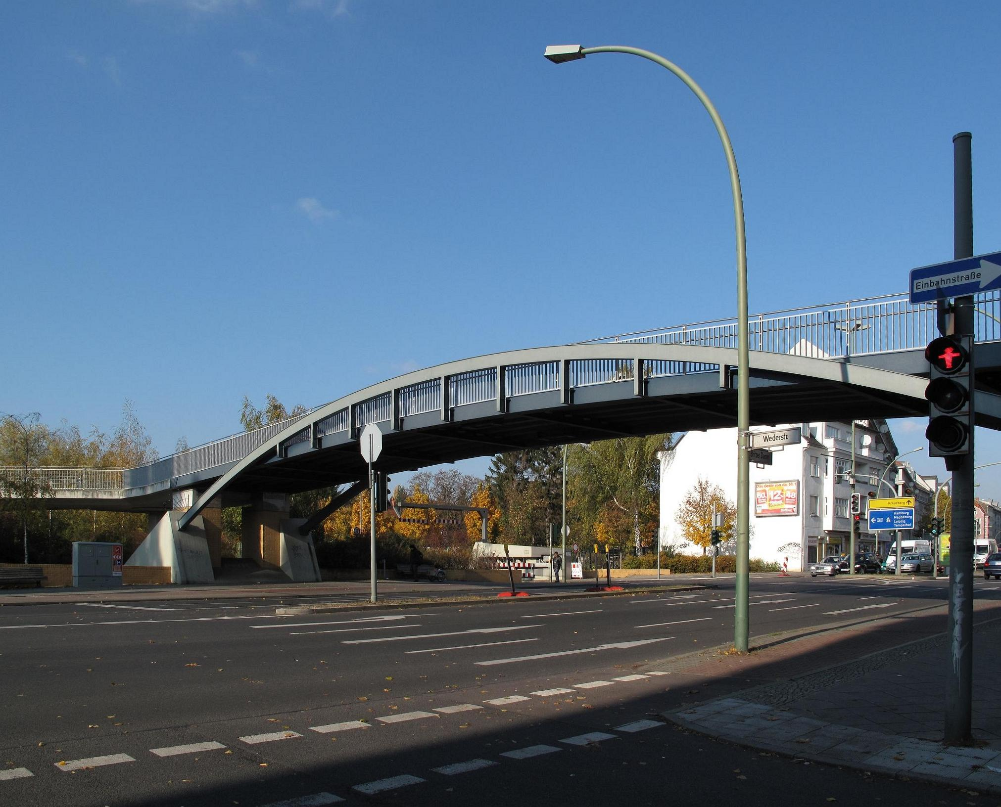 The „Fußgängersteg Britzer Tor“ is a footbridge in Berlin-Britz crossing the Britzer Damm.